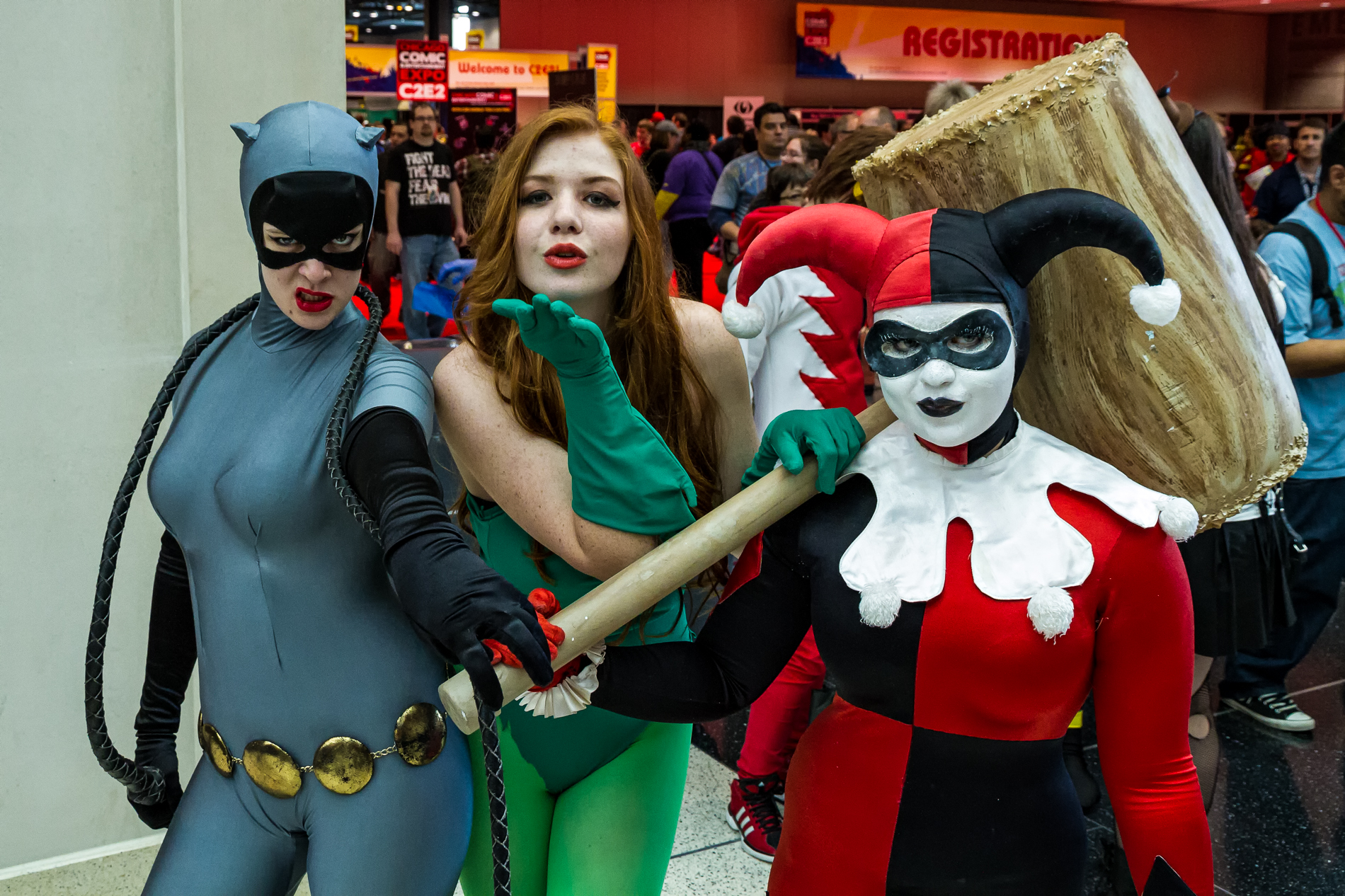 Cosplay at the 2013 Chicago Comic & Entertainment Expo (C2E2).